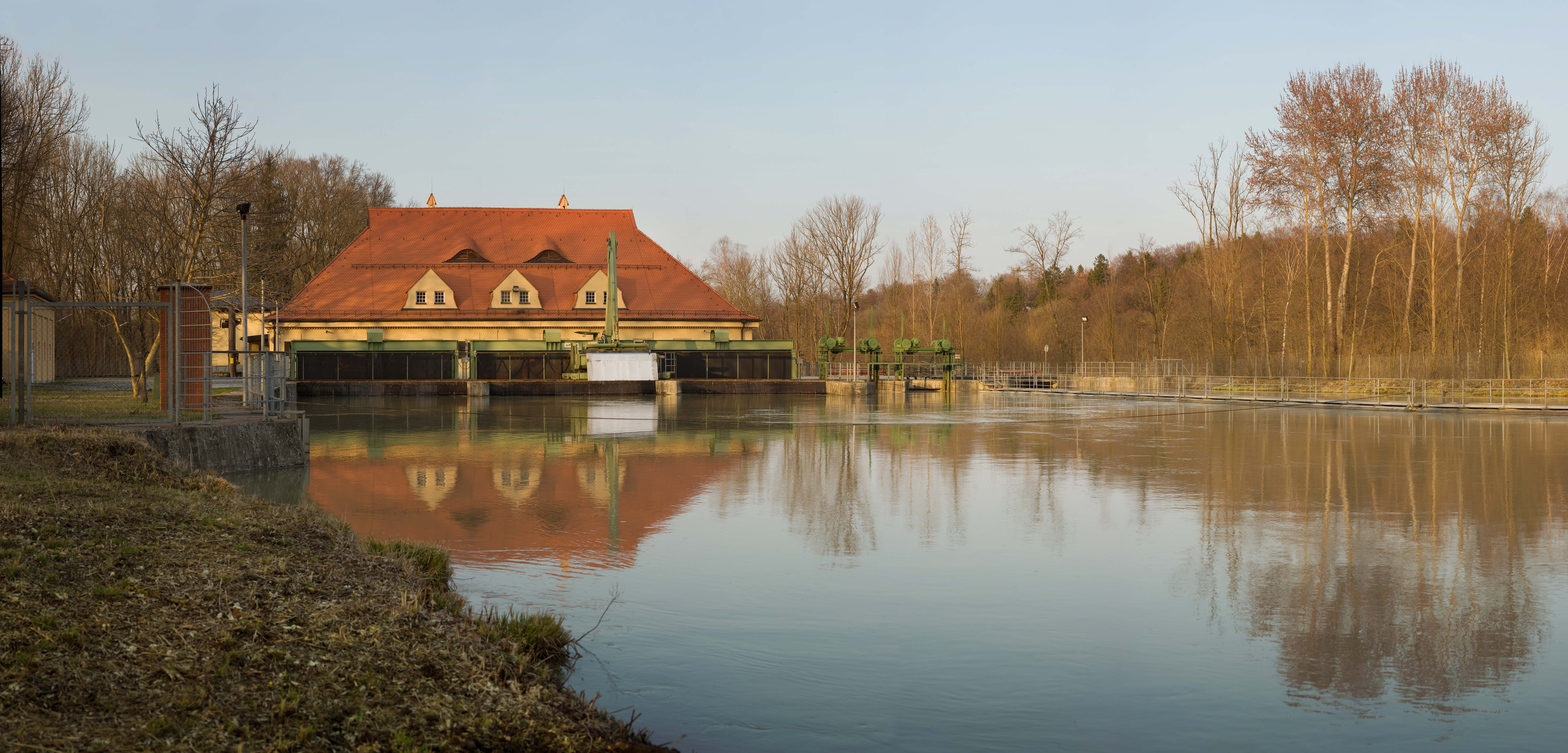 Feed of river power plant Isar 1, Isarkanal, Munich, Germany